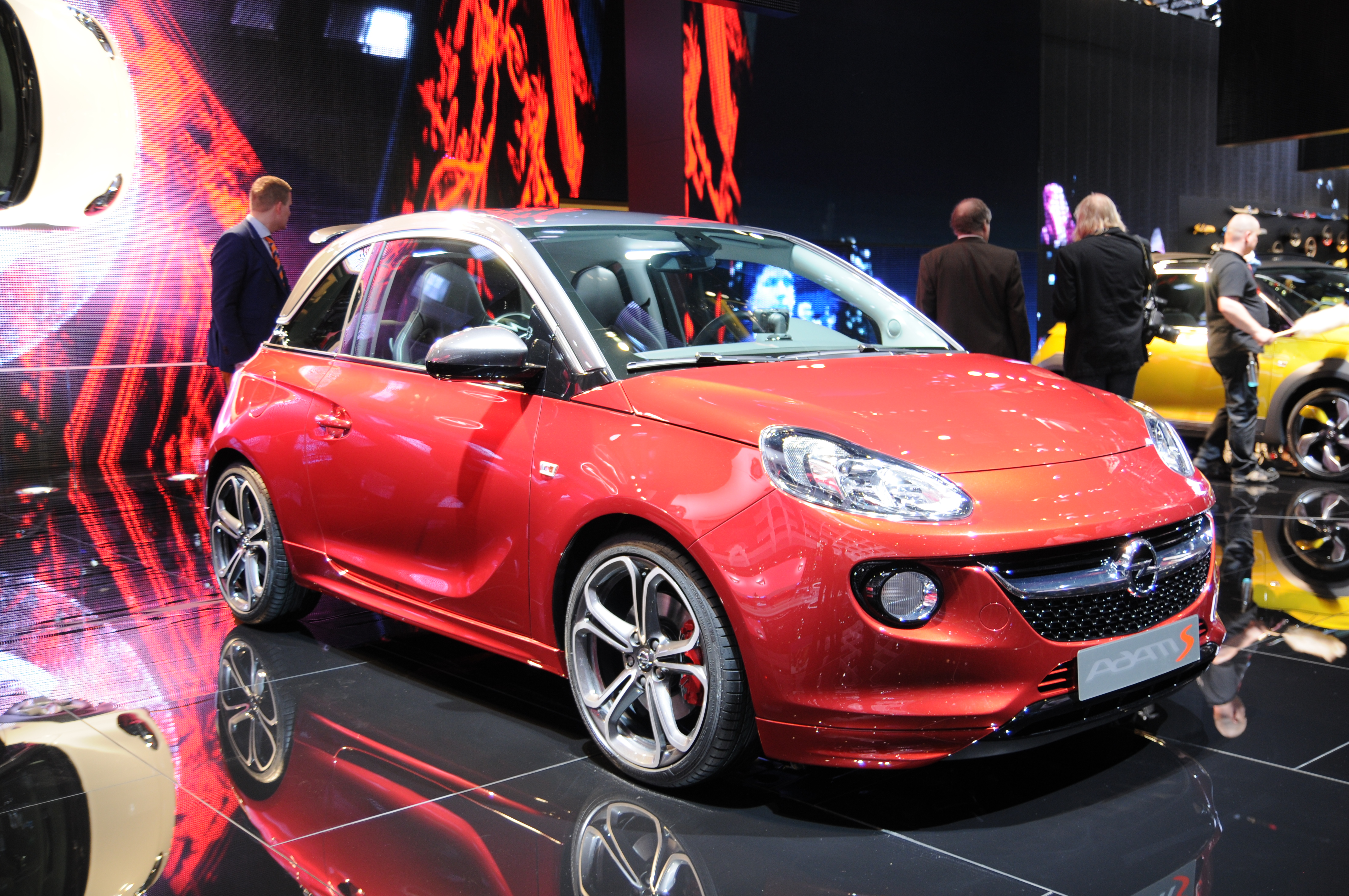 Geneva Motor Show 2014 (photo taken on the first press day)